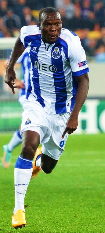 Vincent Aboubakar